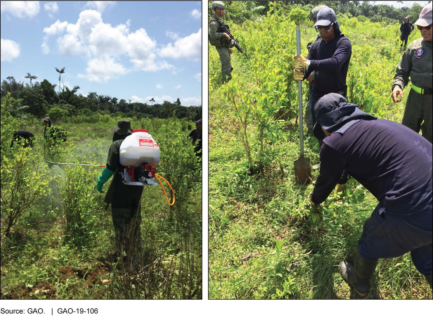 This image is excerpted from a U.S. GAO report: COLOMBIA: U.S. Counternarcotics Assistance Achieved Some Positive Results, but State Needs to Review the Overall U.S. Approach